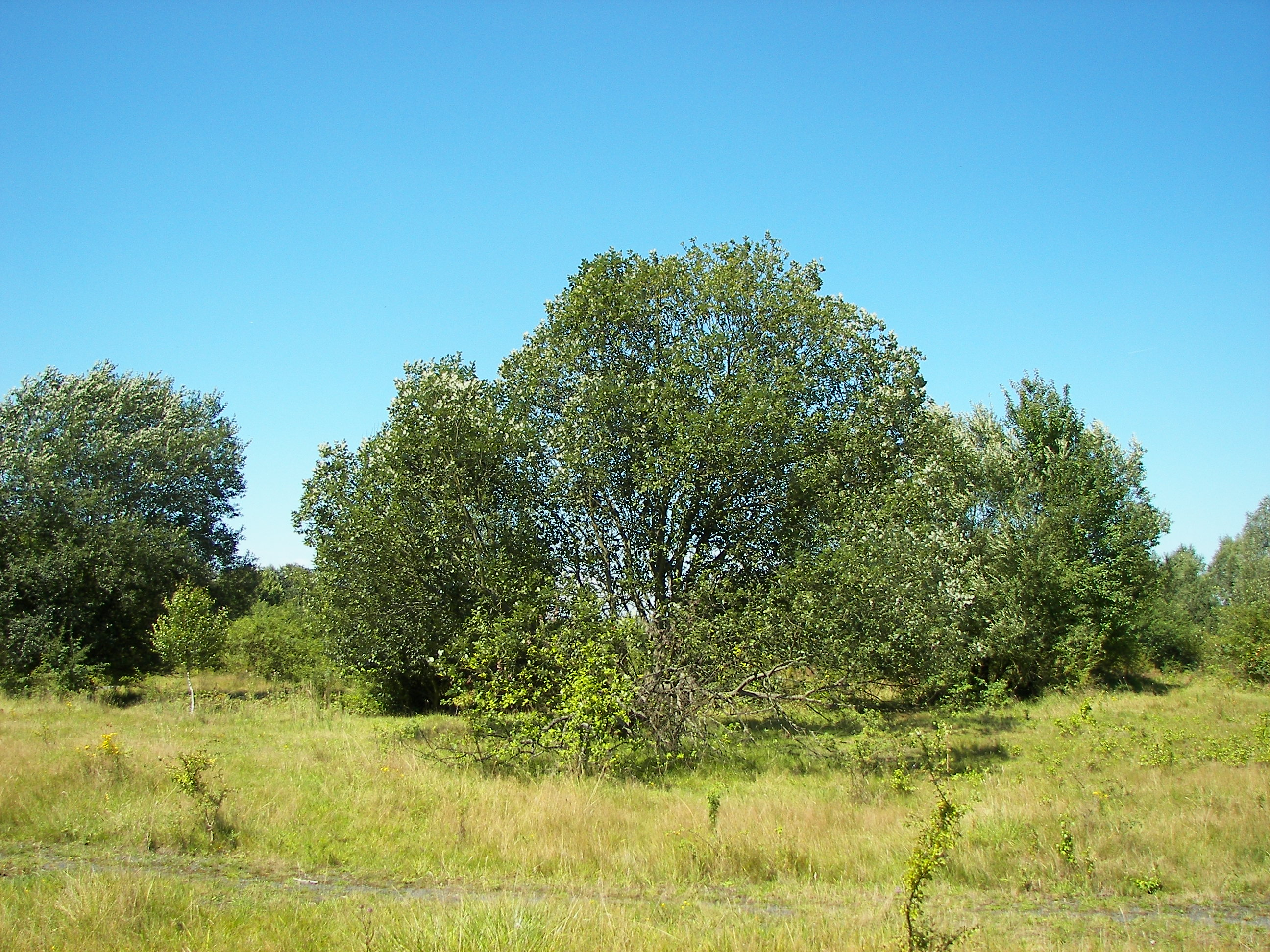 Goat Willow (Salix caprea), Location: Kirchhain, Hesse, Germany